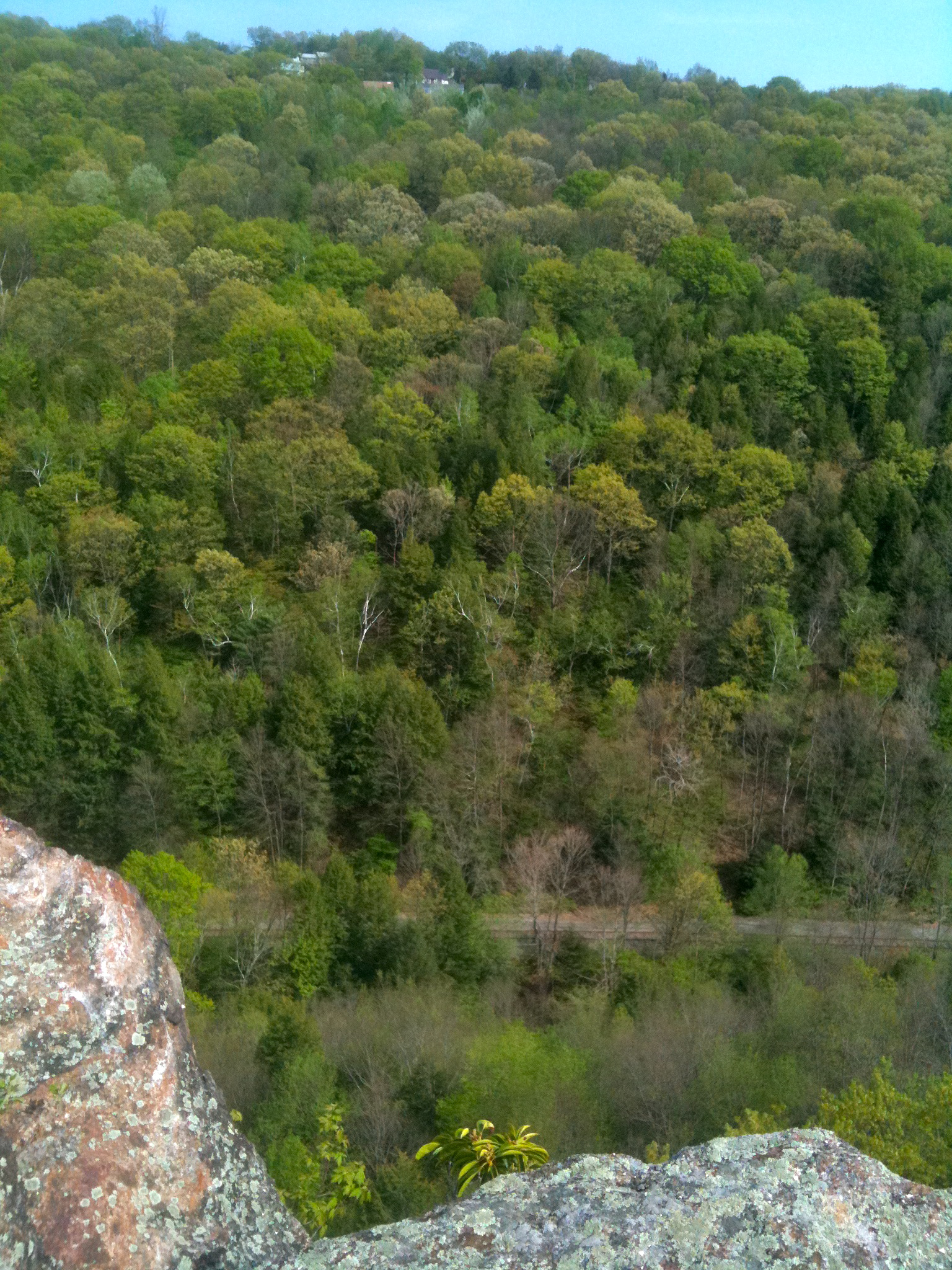 Jericho Blue-Blazed Trail. View of railroad track from Lion Head high point on Hancock Brook Trail.